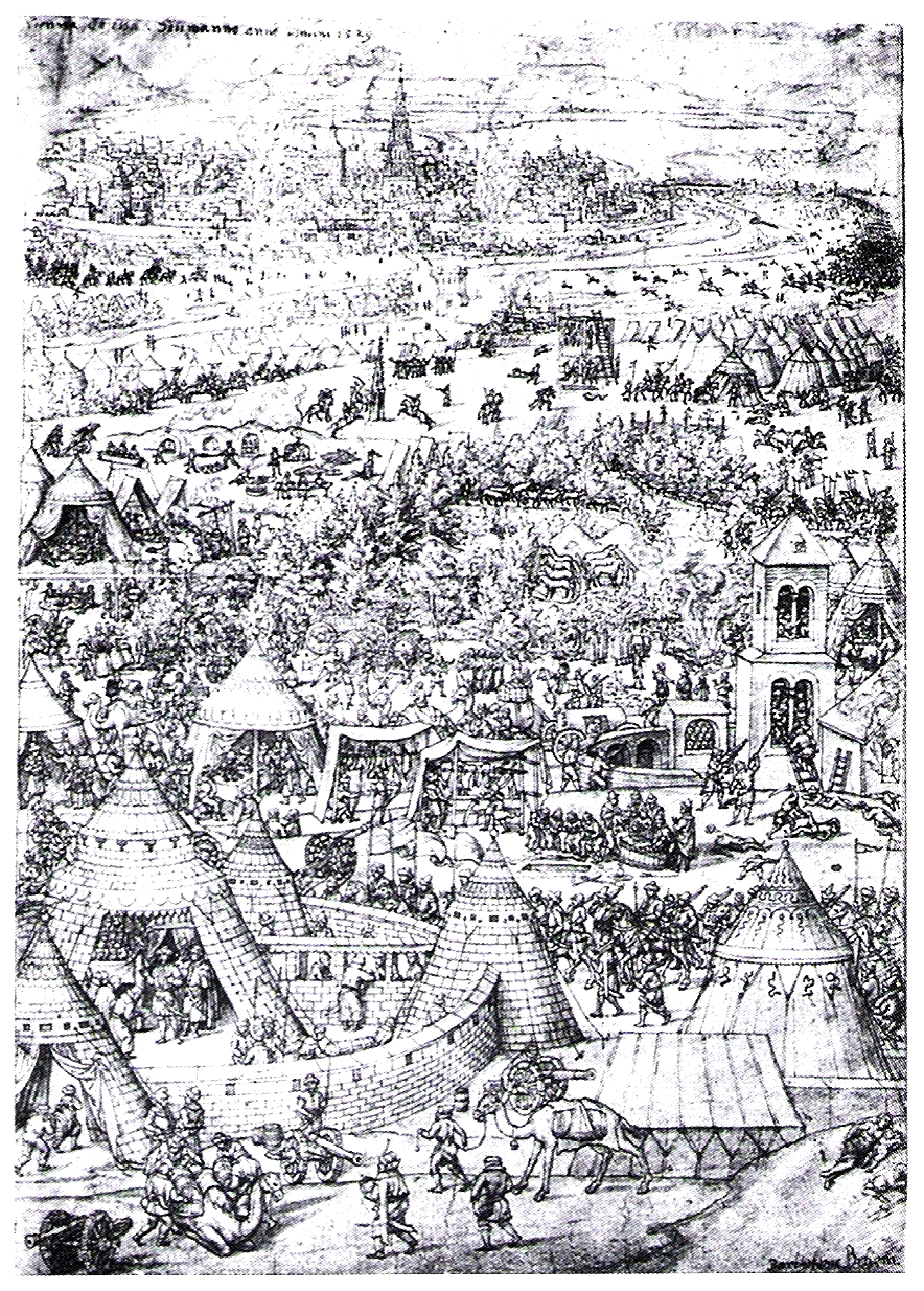 Engraving of the Siege of Vienna (1529)